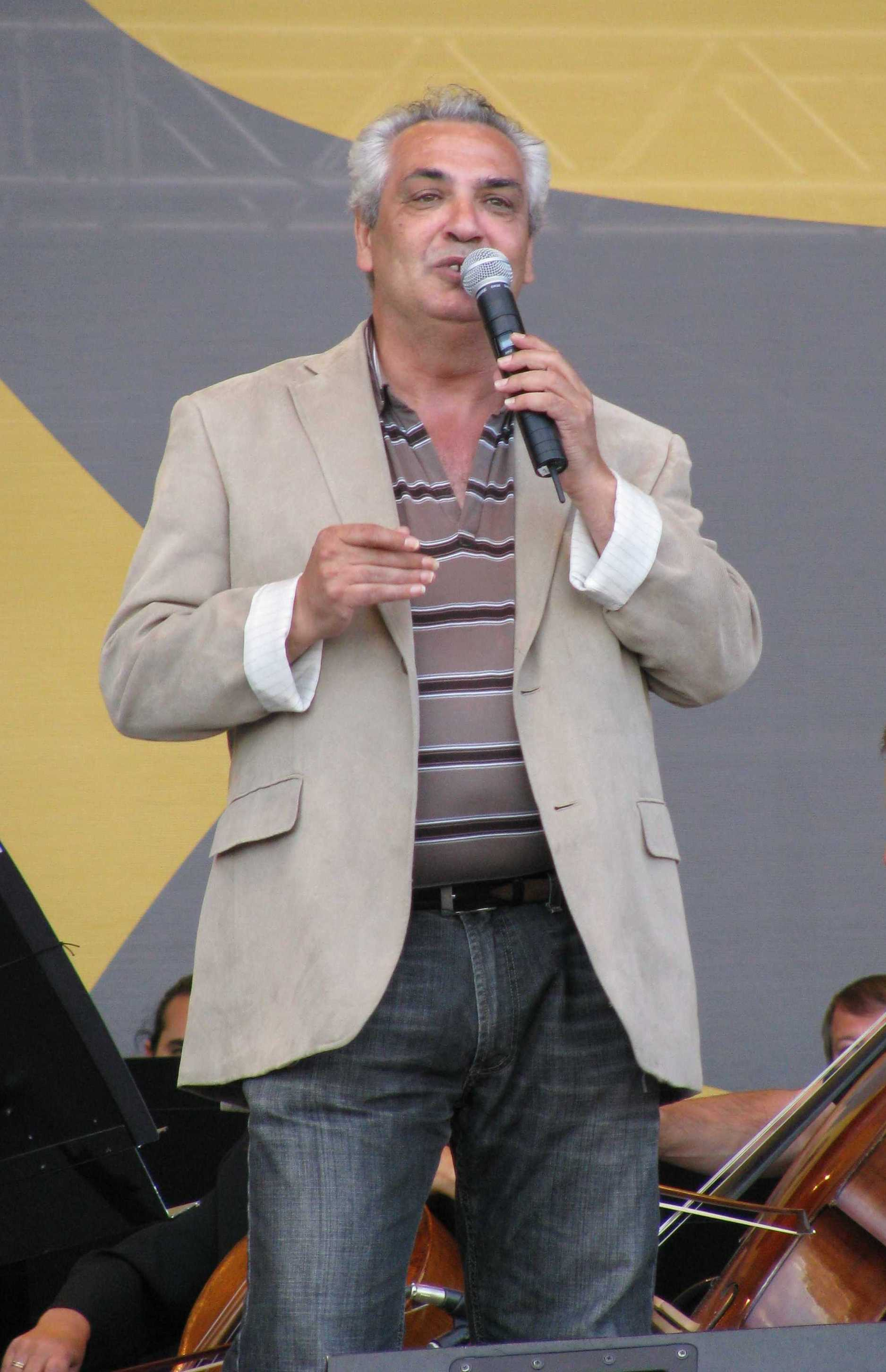 Rainer Friman in Pori 2008